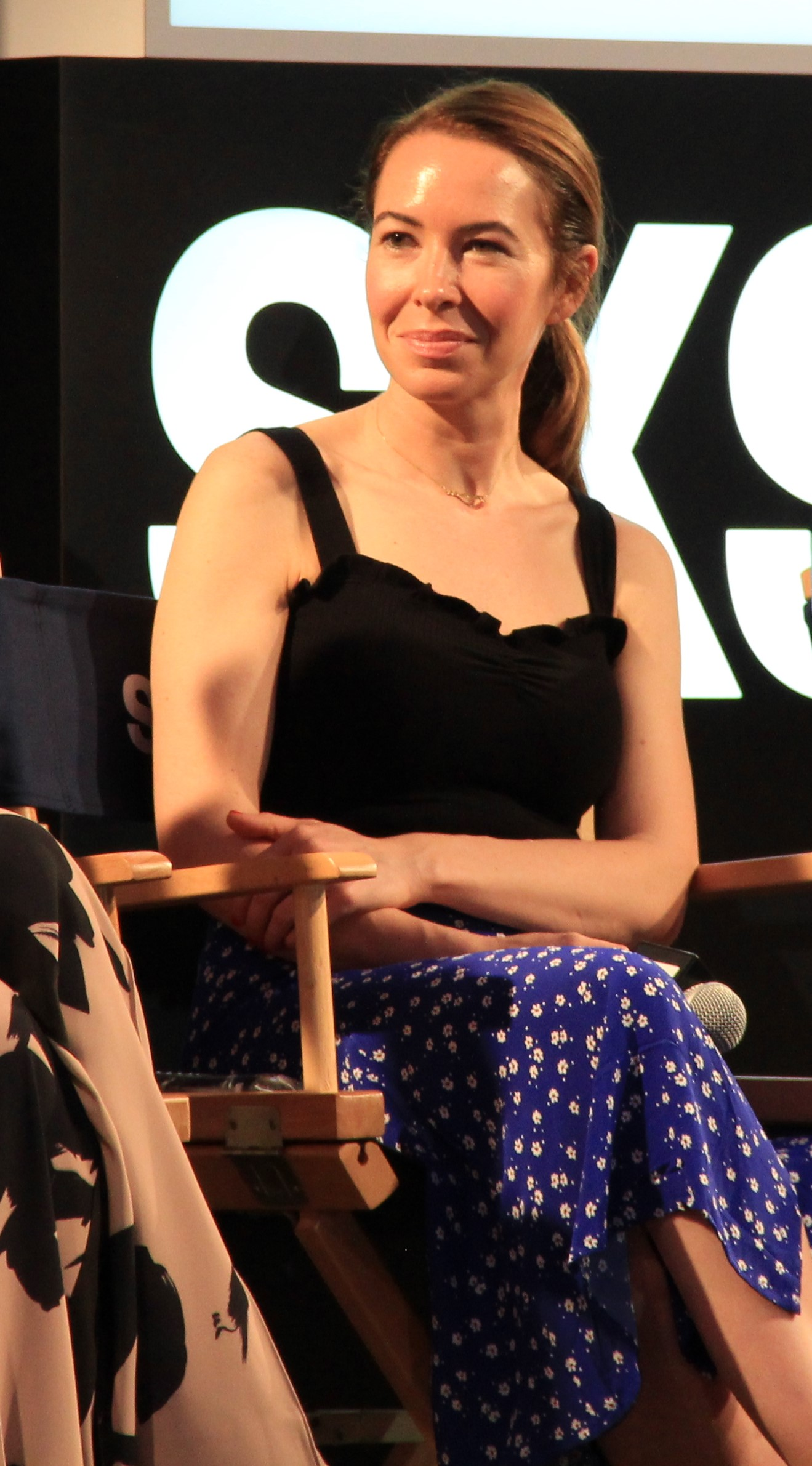 Katie Silberman 2019